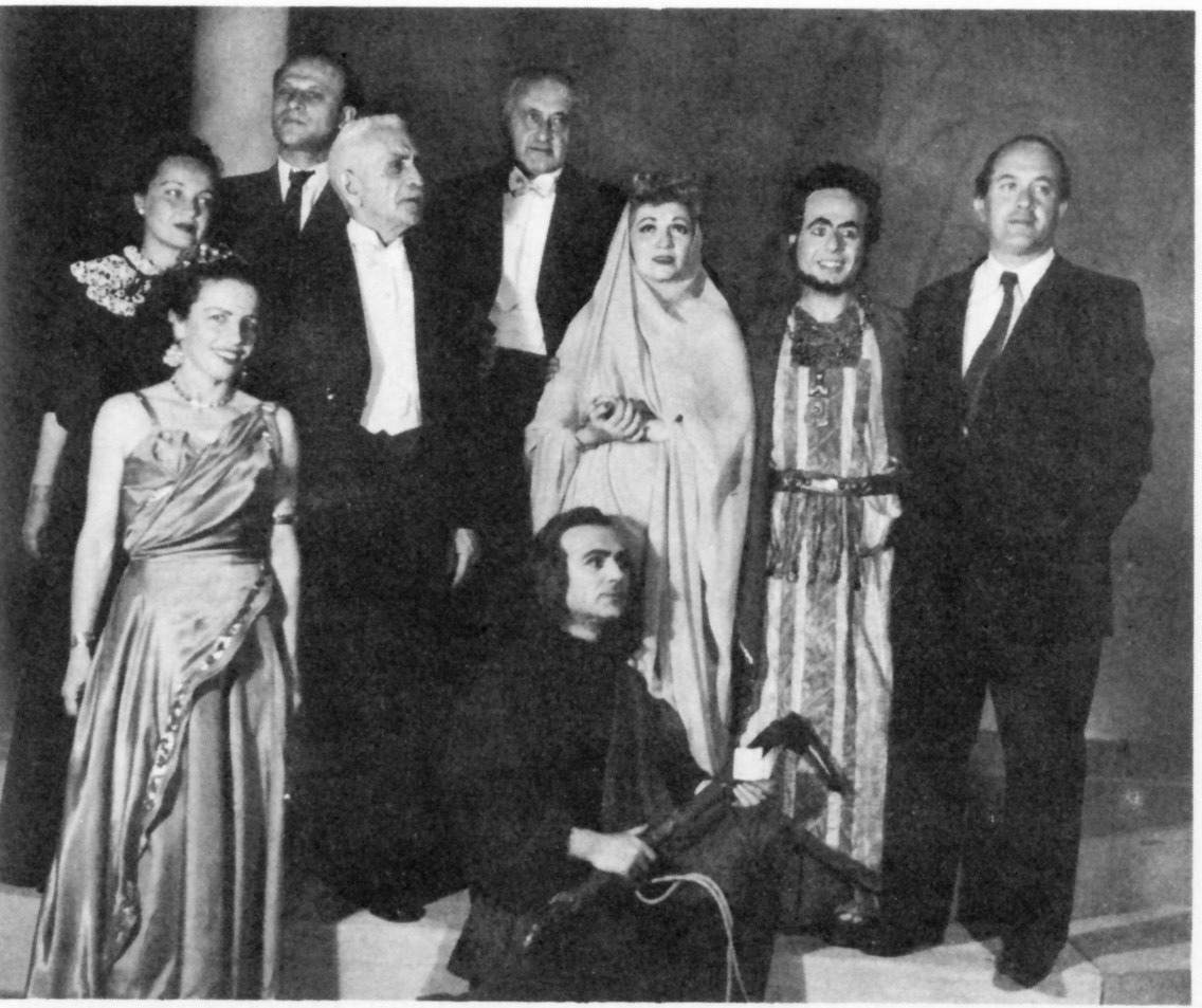 A photo taken at the premiere of the opera Thais at the Israeli National Opera in May 1948. From right to left: Marc Lavry, Avraham Wilkomirsky, Edis de Philippe, director Friedrich Luba, conductor Mordechai Golinkin, S. Kaplan, Genia Berger and choreographer Judith Orenstein. Abraham Belli sits in the middle.